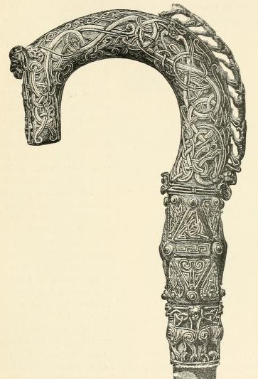 The Crozier of Clonmacnoise. illustration in the book Historic ornament : treatise on decorative art and architectural ornament, vol.2 by James Ward (1851 - 1924)